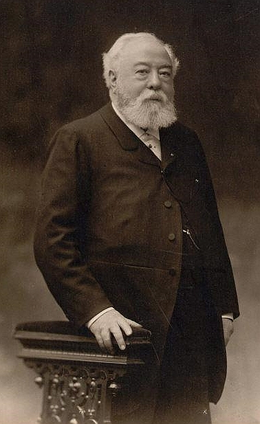 French clarinetist Chrysogone-Cyrille Rose (1830-190?) by Pierre Petit (1832-1909)